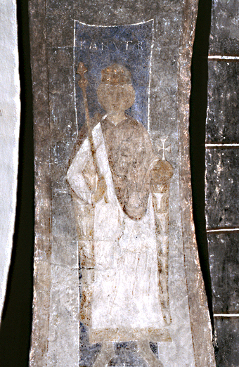 The danish king Knut VI in Stehag church in Scania Sweden